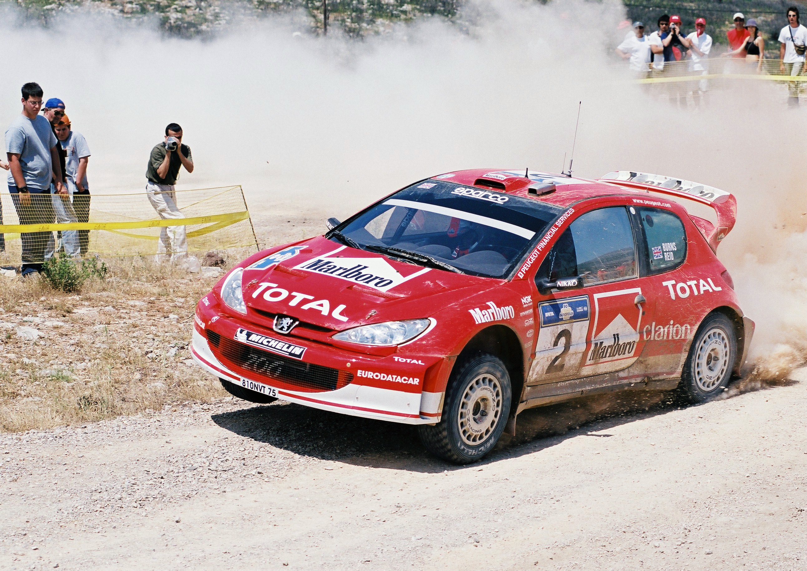 2 R. Burns and R. Reid in 2003 Acropolis Rally (S.S. ?)